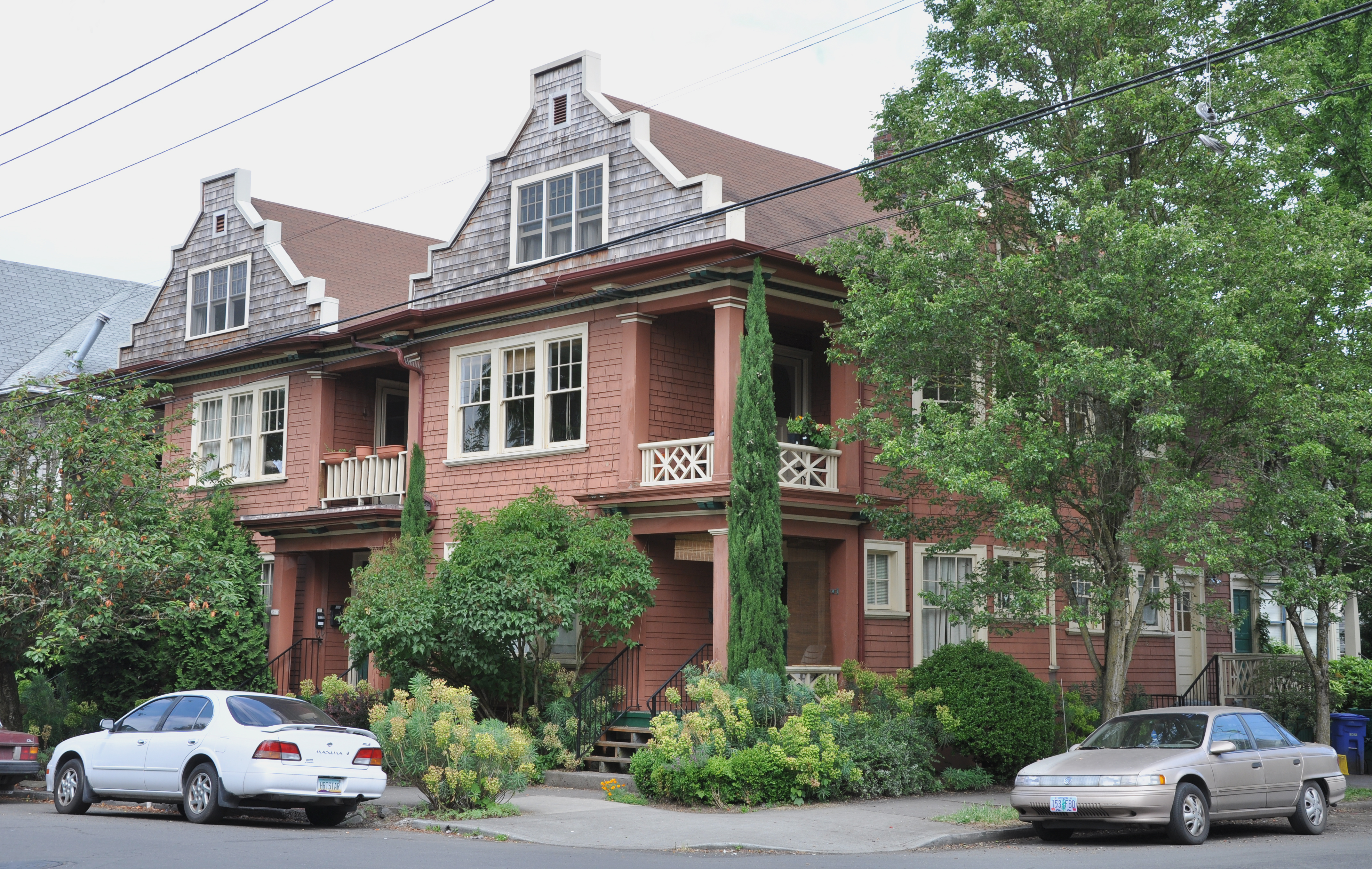 John M. Wallace Fourplex in Portland in the U.S. state of Oregon. The structure is listed on the National Register of Historic Places.